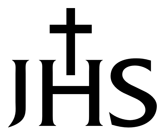 The JHS or IHS monogram of the name of Jesus (or traditional Christogram symbol of western Christianity), derived from the first three letters of the Greek name of Jesus, Iota-Eta-Sigma (ΙΗΣΟΥΣ). Partly based on memories of church decorations. Has some degree of resemblance to a portion of the emblem of the Jesuits, due to common medieval influences (see Feast of the Holy Name of Jesus), but is not exactly the same, nor intended to be so. For a medieval style version of this monogram, see Image:IHS-monogram-Jesus-medievalesque.png or Image:IHS-monogram-Jesus-medievalesque.svg .